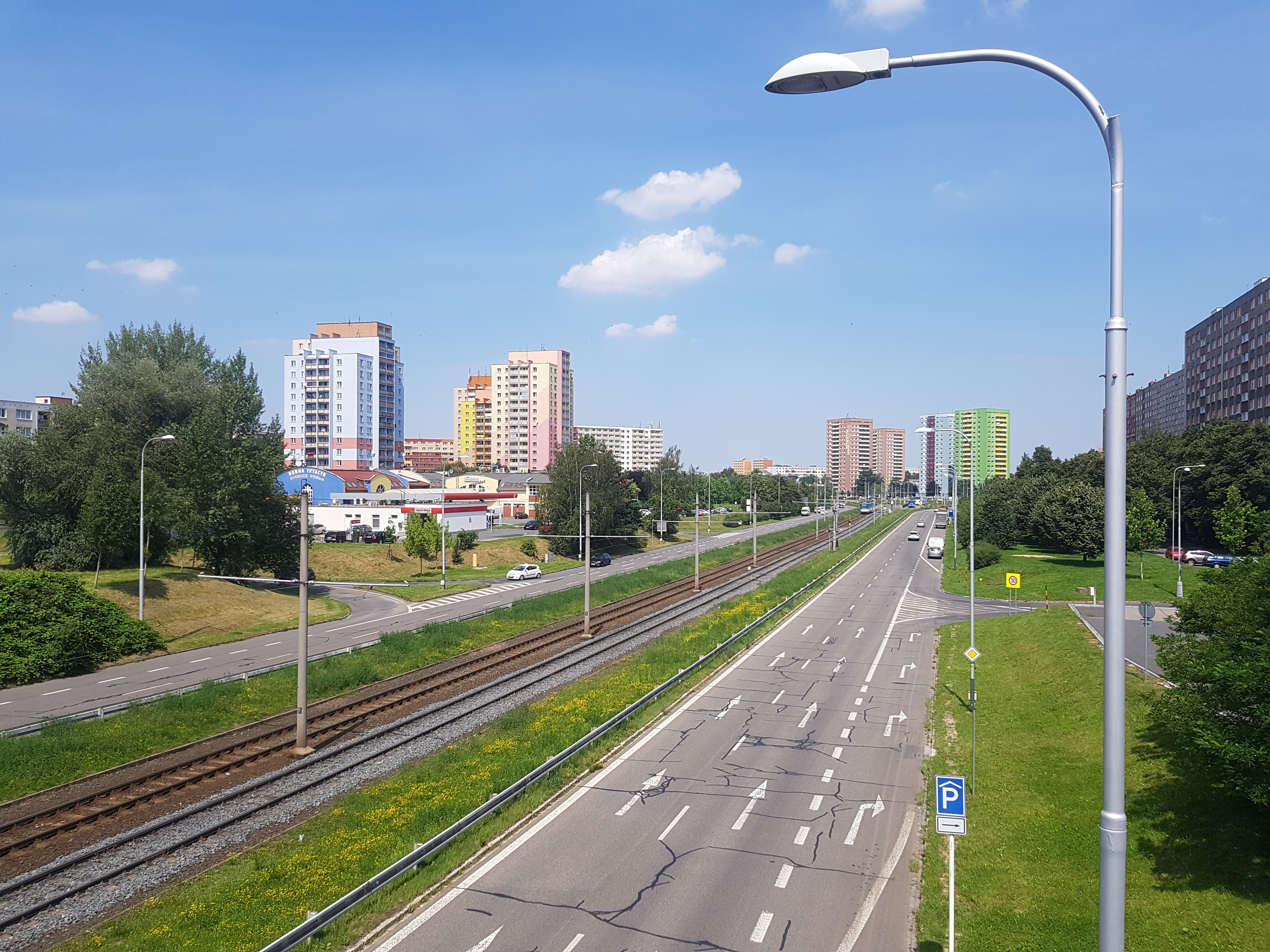 View on Hrabůvka quarter in Ostrava (Czechia). Until 1959 at this place was operating an airfield (Letiště Hrabůvka).